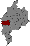 Location of Cabó in Alt Urgell